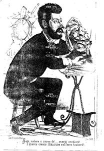 Castelforte Petronio